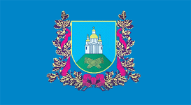 Flag of Sumyskyj district (Ukraine)